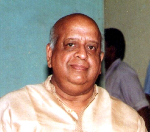 T.N. Seshan in 1994